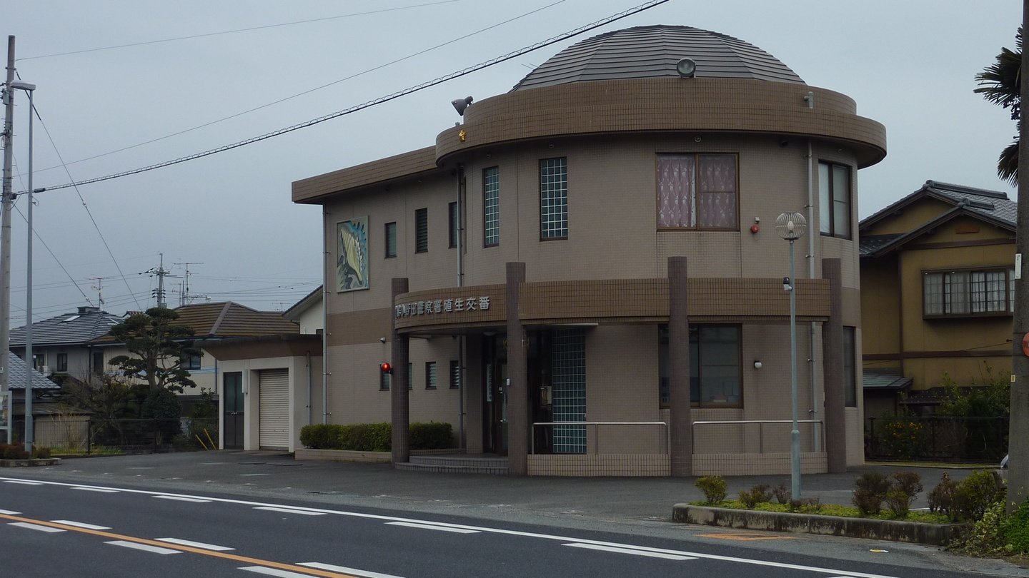 Sanyo-Onoda Police Station Habu Koban (Yamaguchi, Japan)